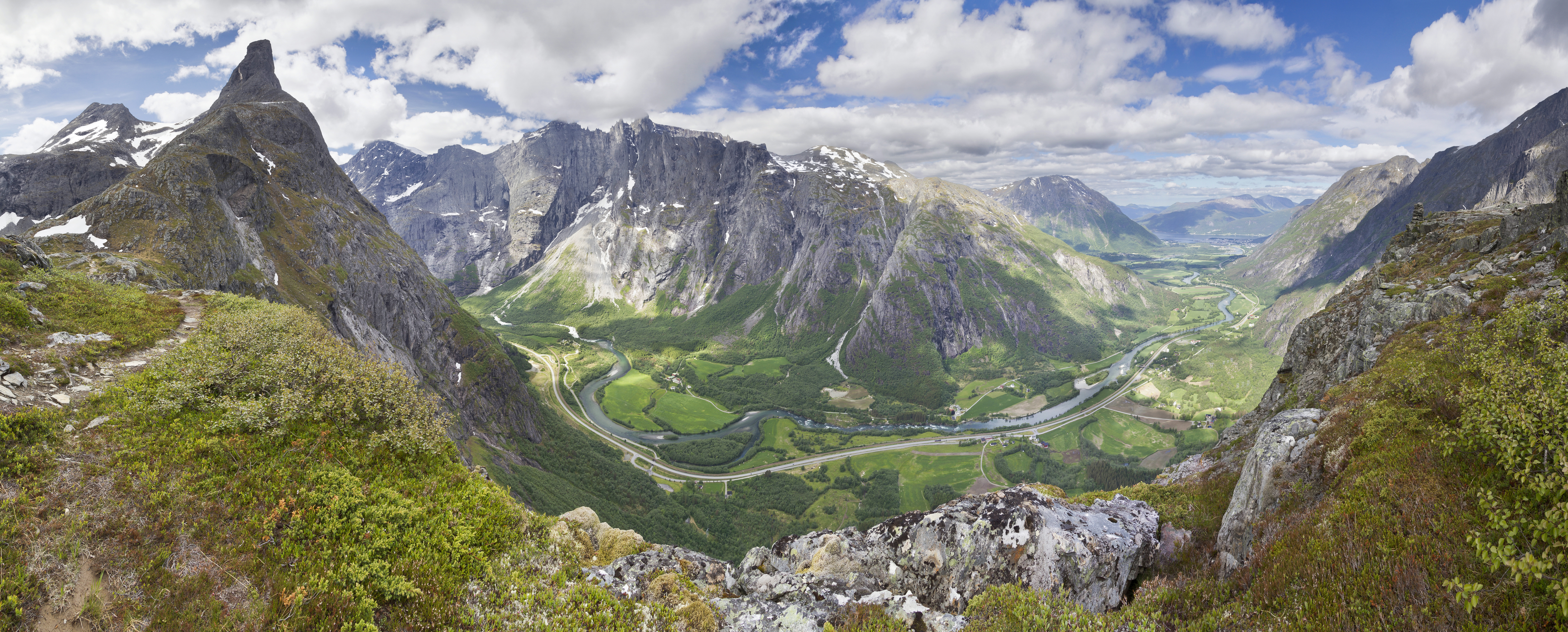 A view to Romsdalen from the Litlefjellet ridge between Romsdalen and Vengedalen, Møre og Romsdal, Norway in 2013 June.